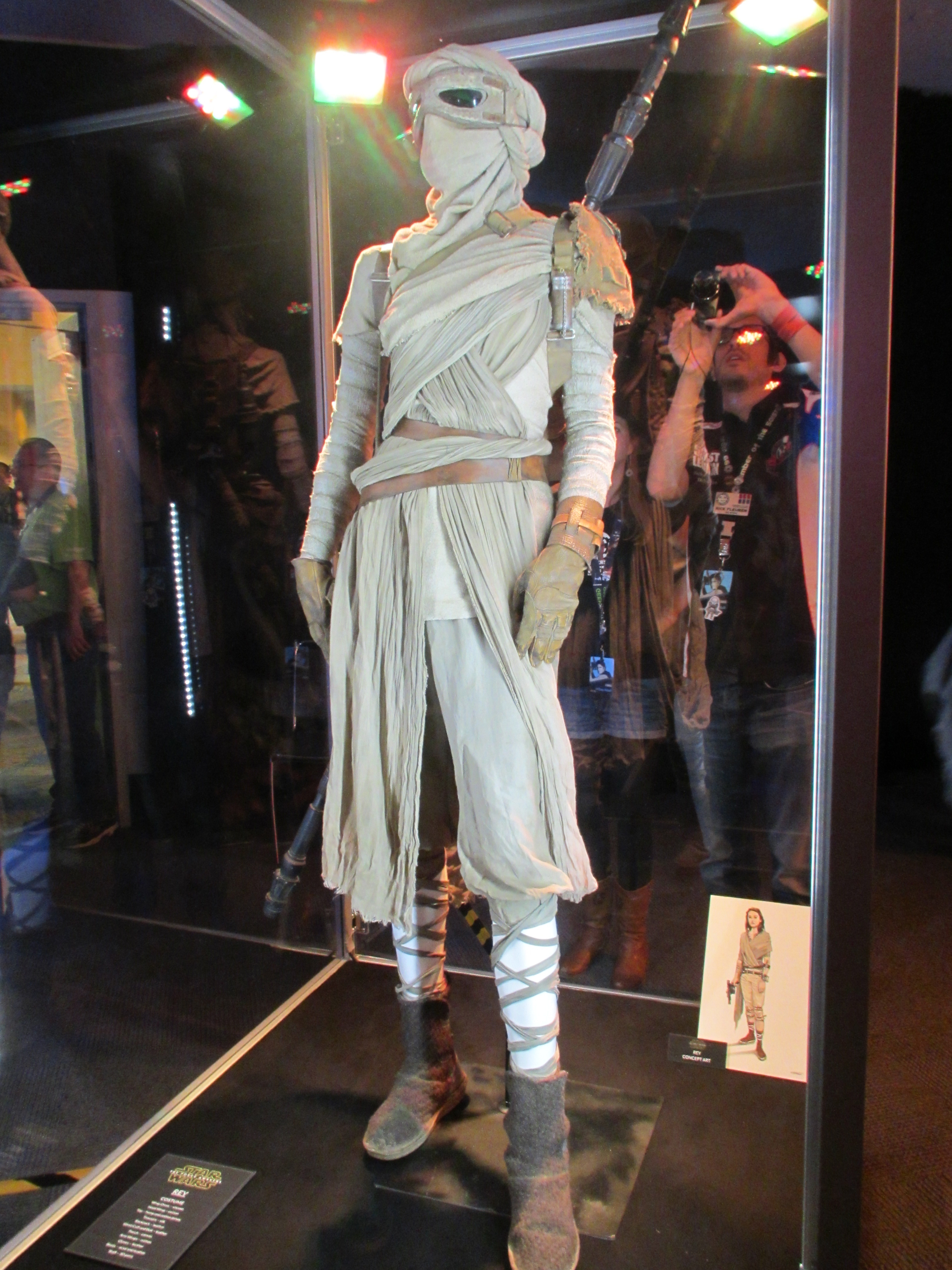 Rey Star Wars Celebration in Anaheim, April 2015.